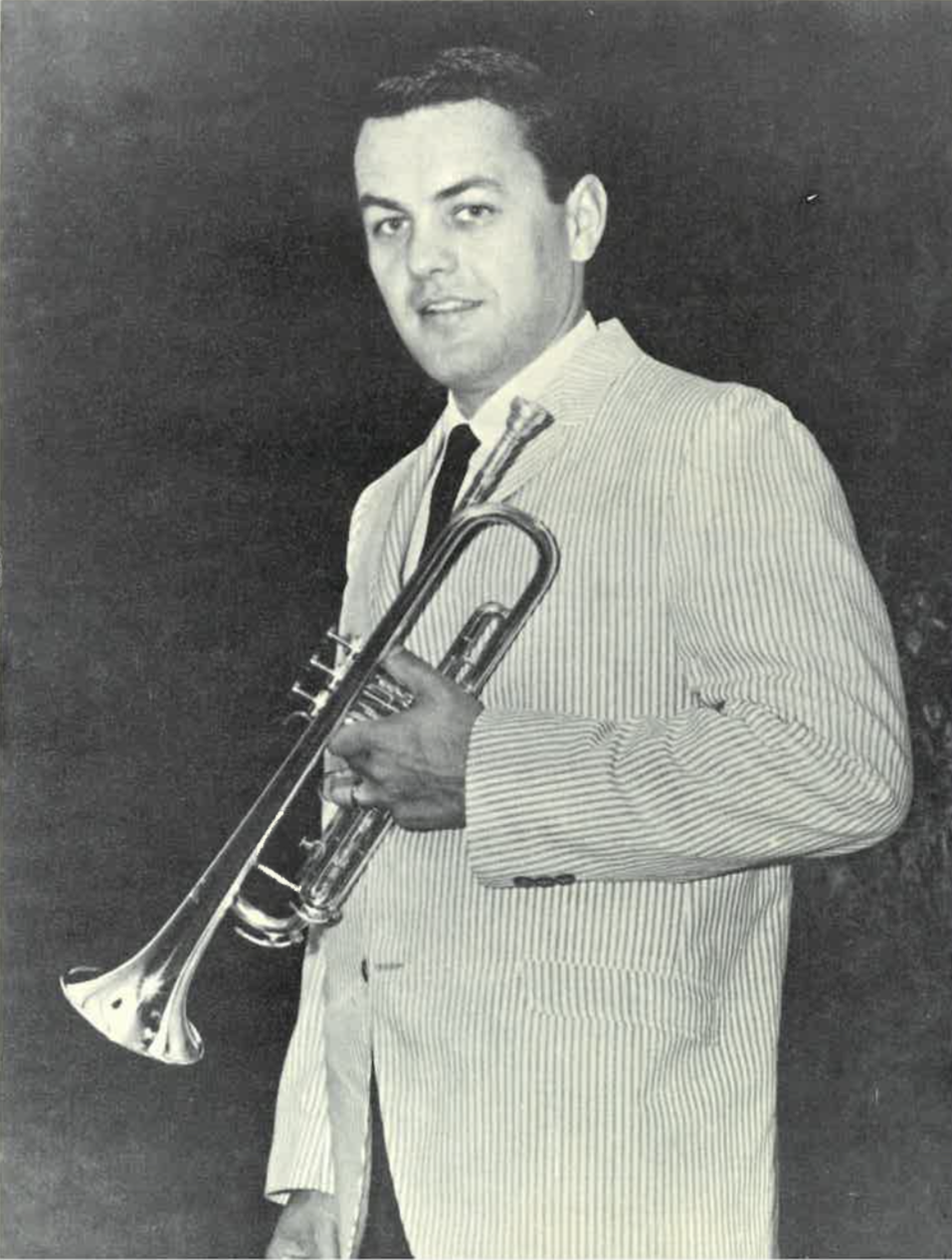 A picture of bud with his trumpet